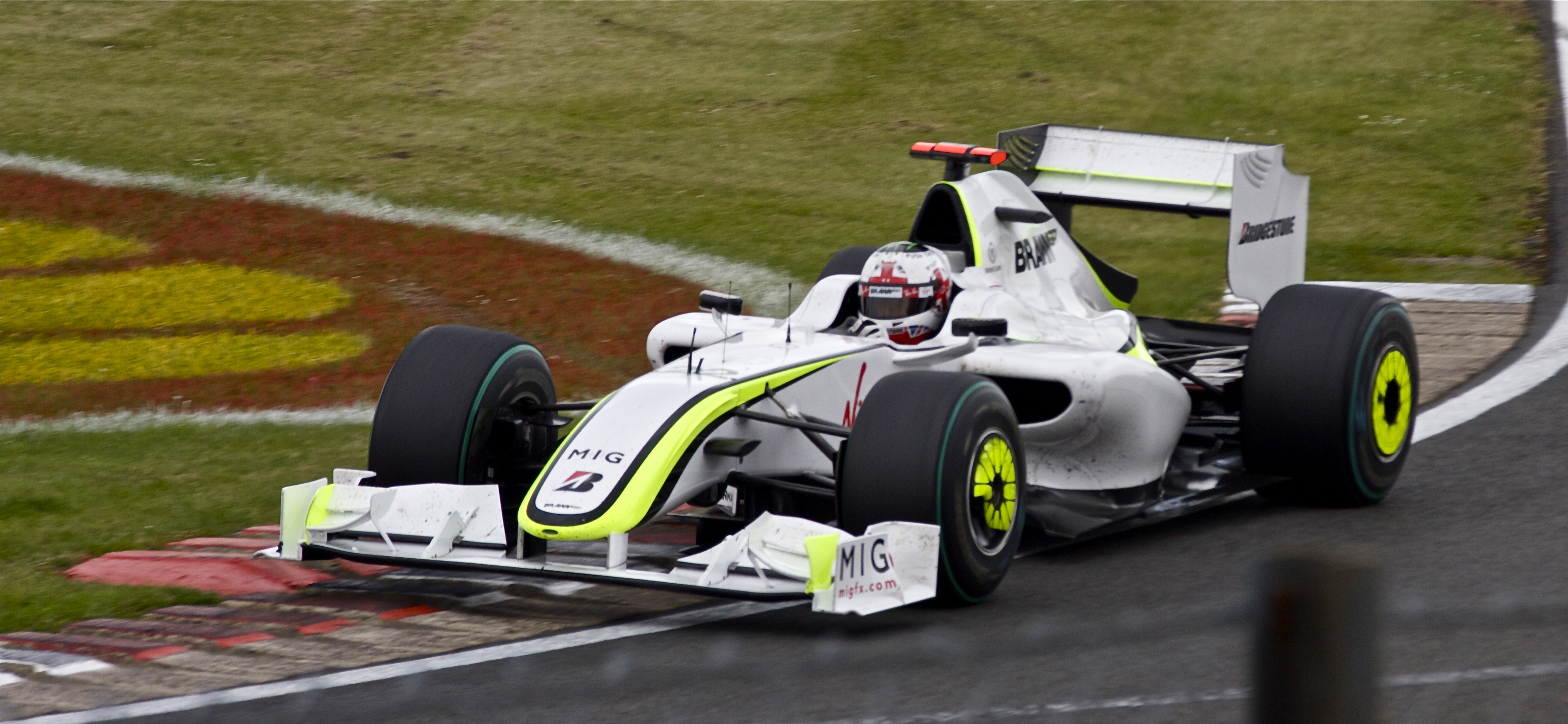 Jenson Button at the 2009 British Grand Prix, Silverstone, UK.